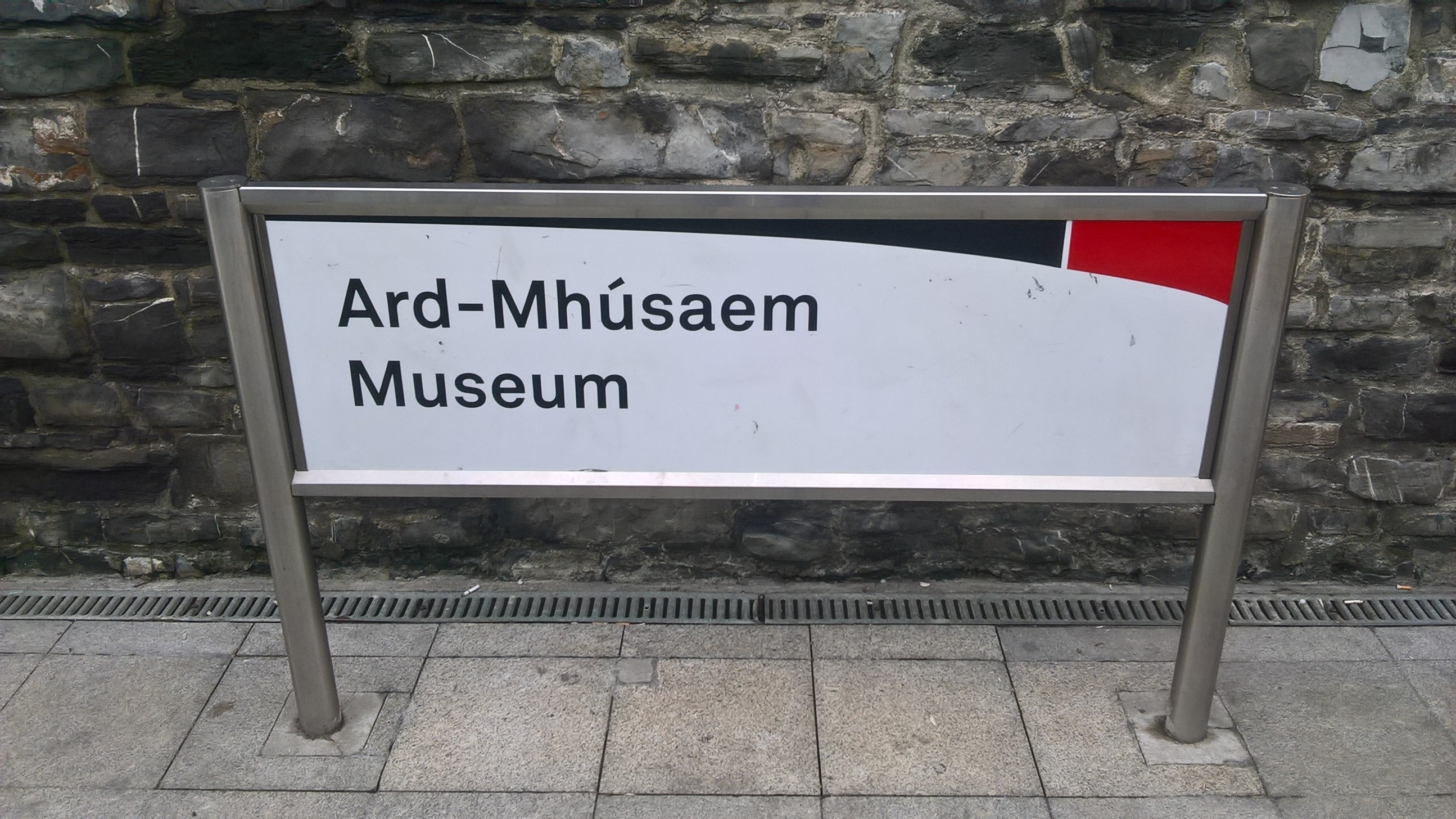 National Museum of Ireland- Decorative Arts & History- Collins Barracks Luas stop (2019).